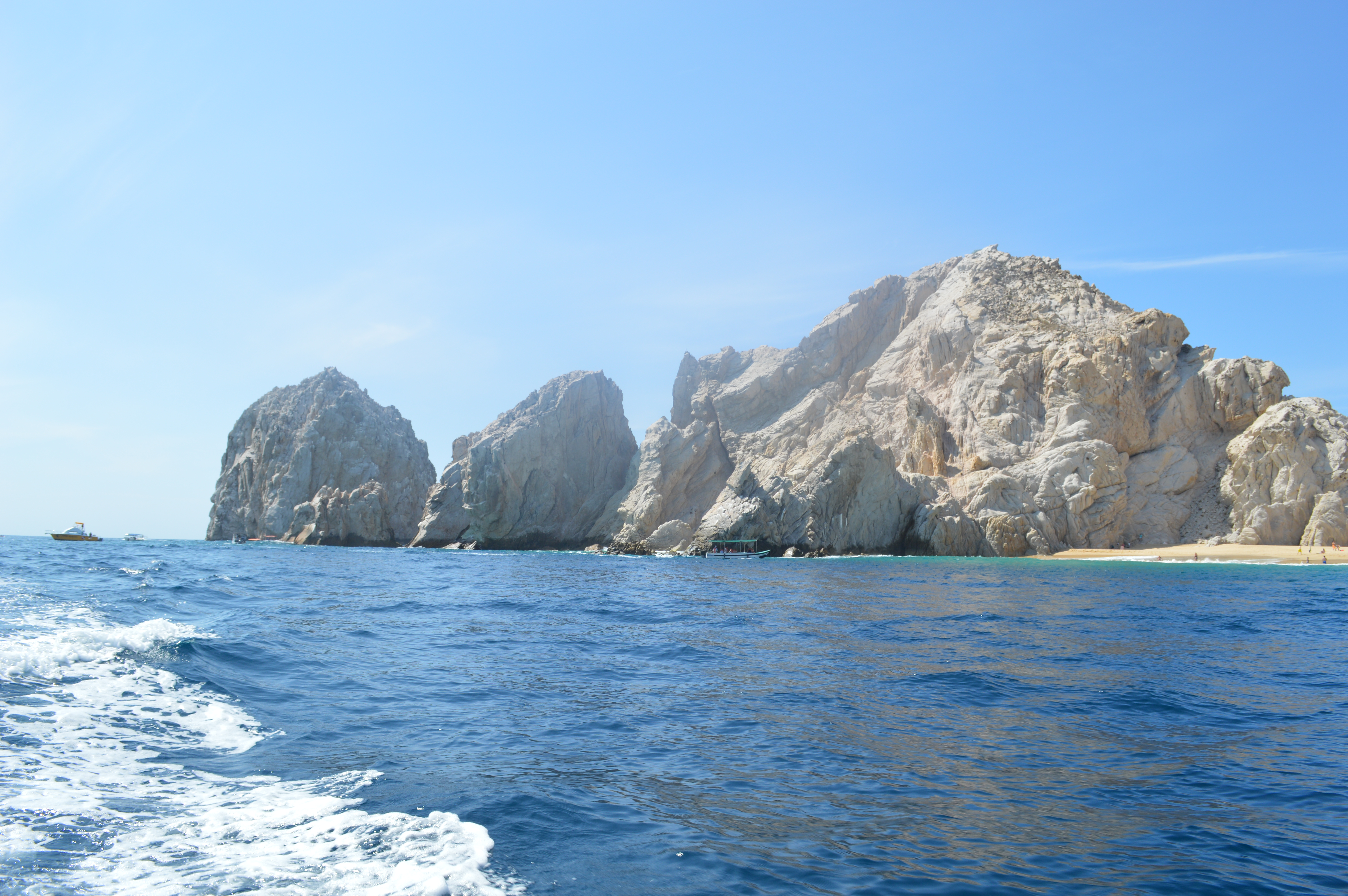 rock formations at Land's End peninsula in Cabo San Lucas, Baja California Sur